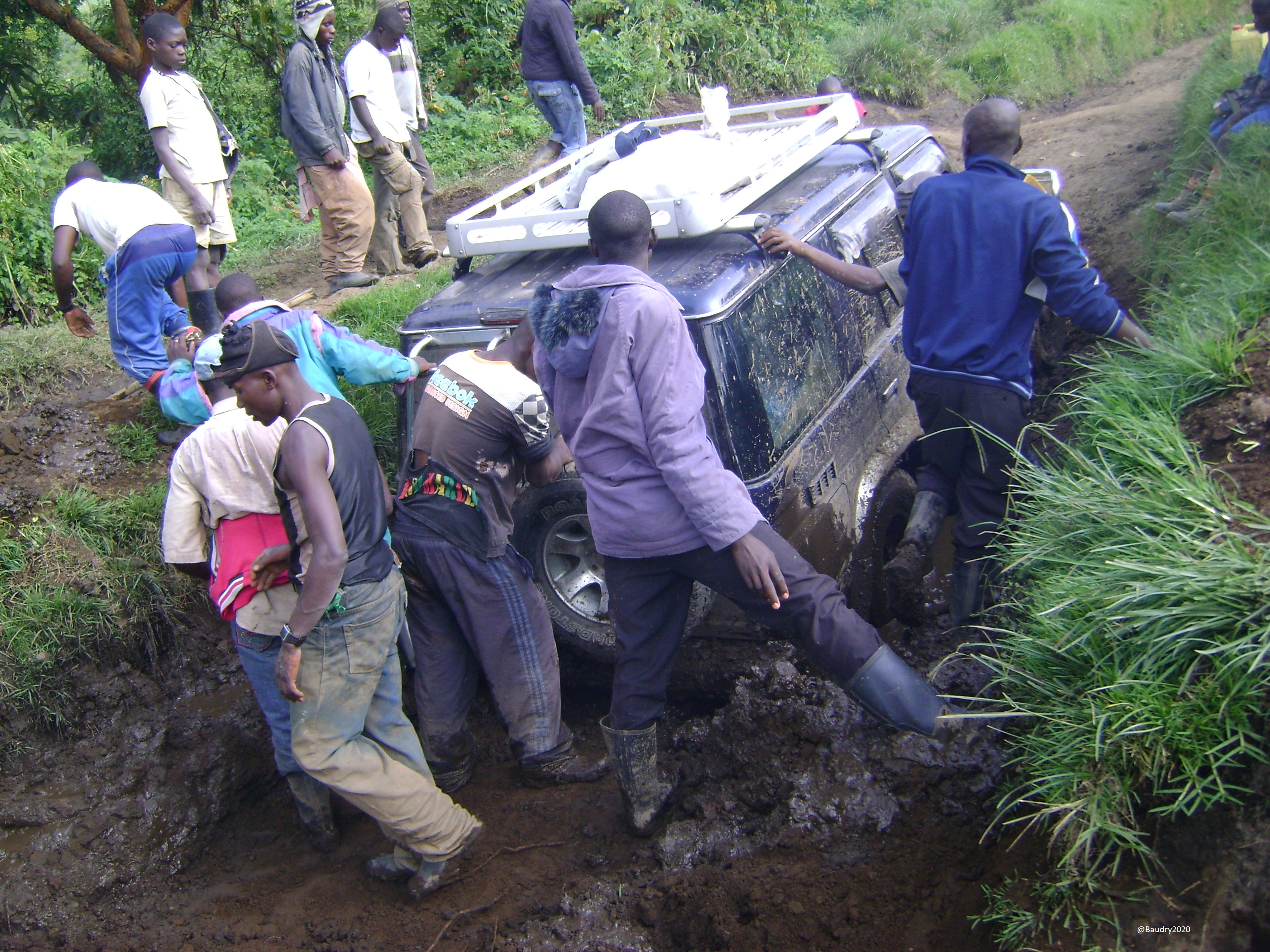 This is an image with the theme "Africa on the Move or Transport" from: Democratic Republic of the Congo